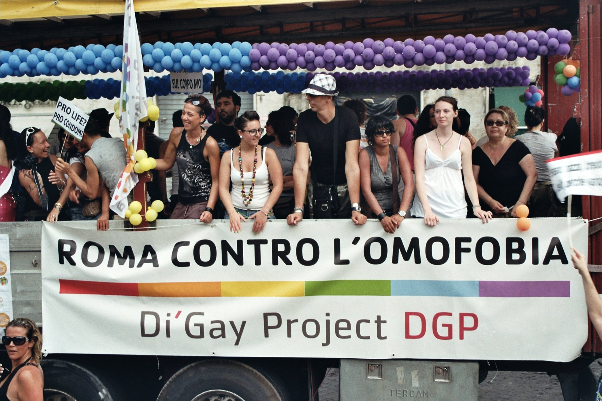 Activists of Di' Gay Project, Italian LGBTQ Association; The banner reads «Rome against homophobia»